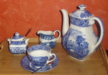 A typical set of tableware made by Wedgwood & Co. Ltd. in the 1960s, not to be mixed up with the wares of Josiah Wedgwood & Sons.